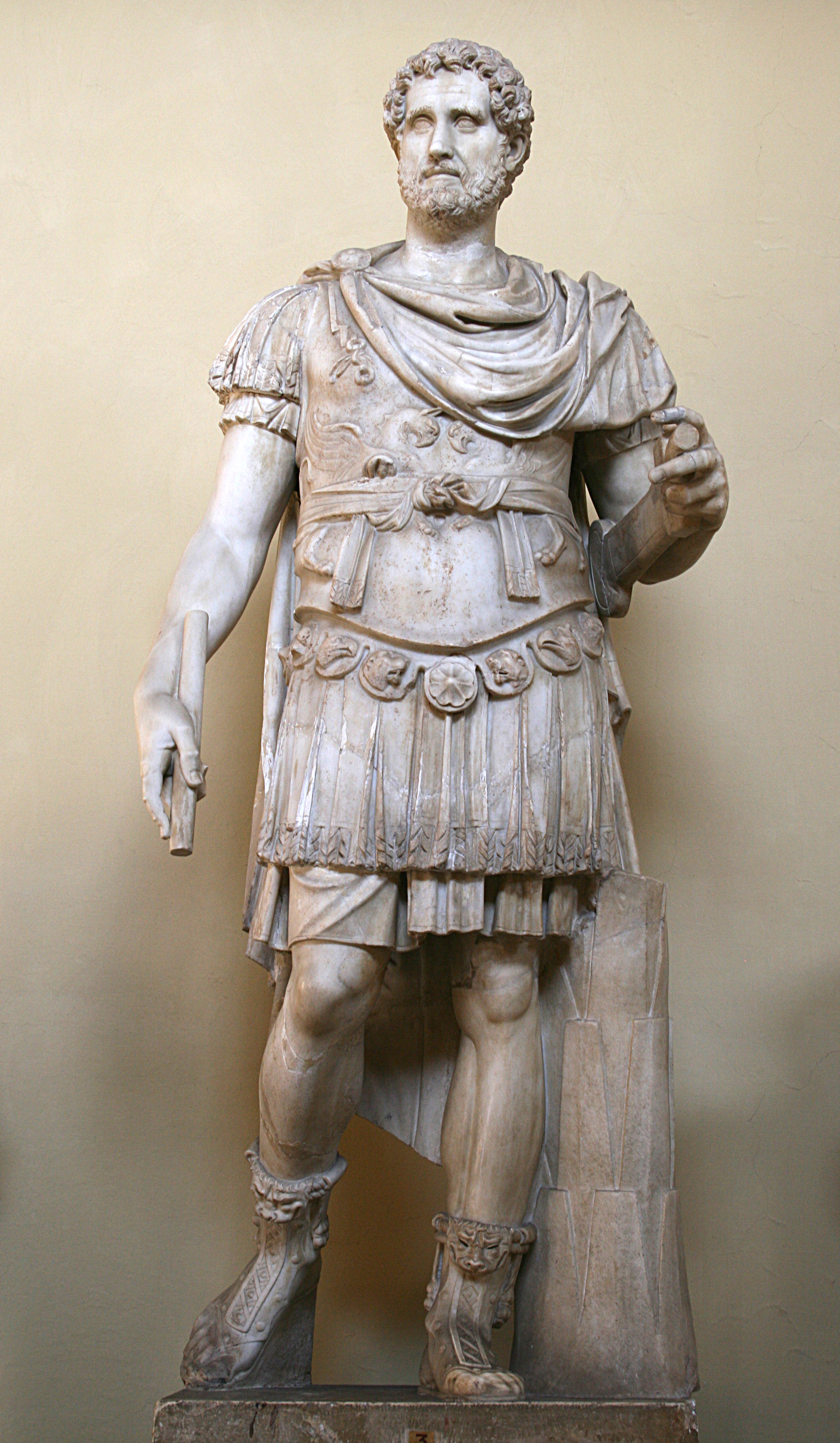 Statue of Antoninus Pius in armor - Roman artwork - Museum Chiaramùonti (Vatican Museums.